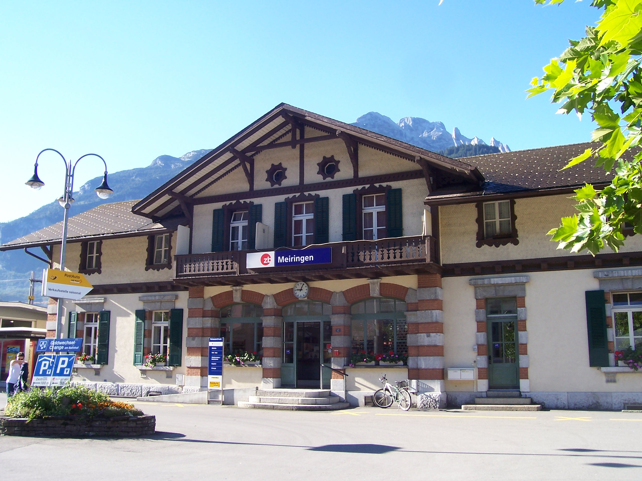 The exterior of Meiringen railway station. For more information, see Meiringen railway station.